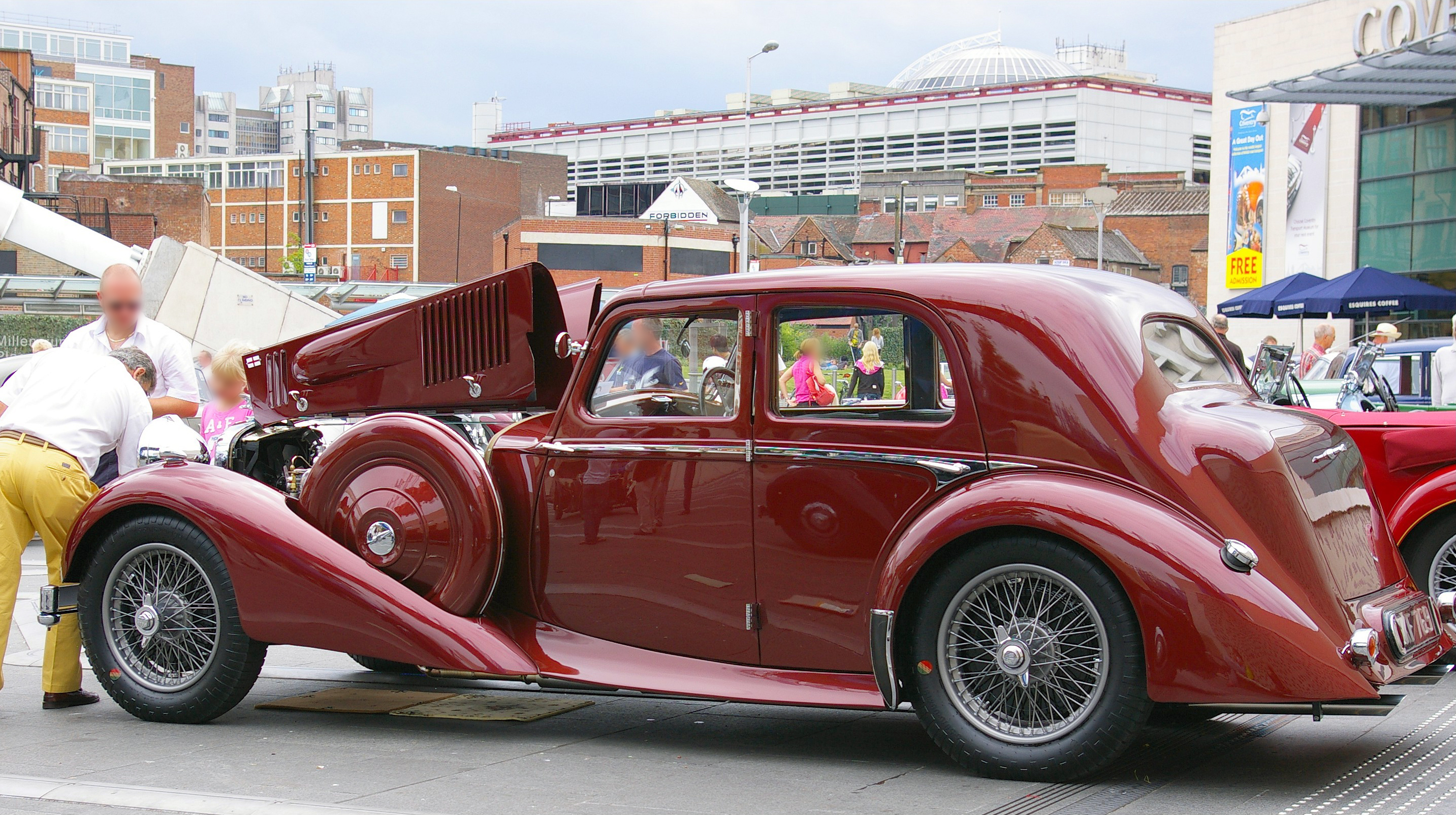 Alvis Speed 25 very sleek and a great colour.